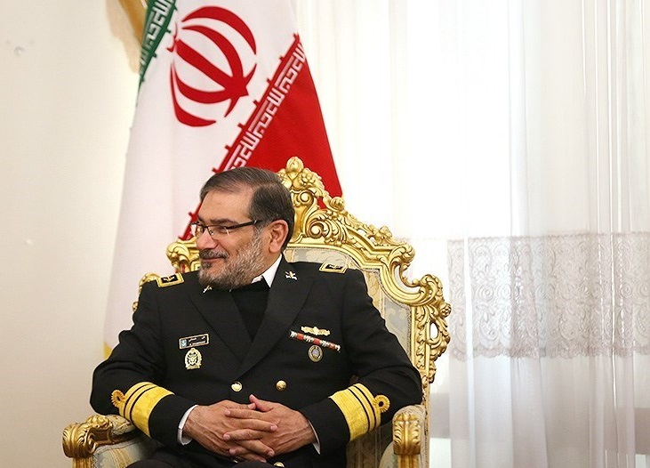 Ali Shamkhani